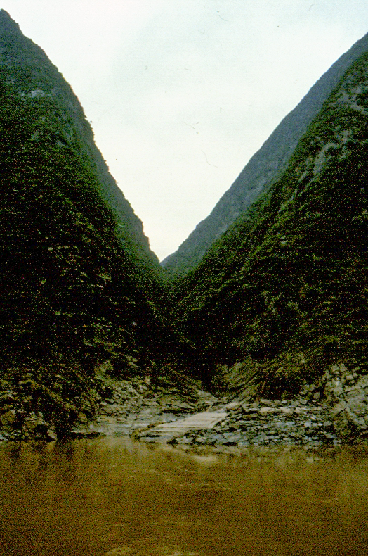 Cruising on the Yangtze, 1983